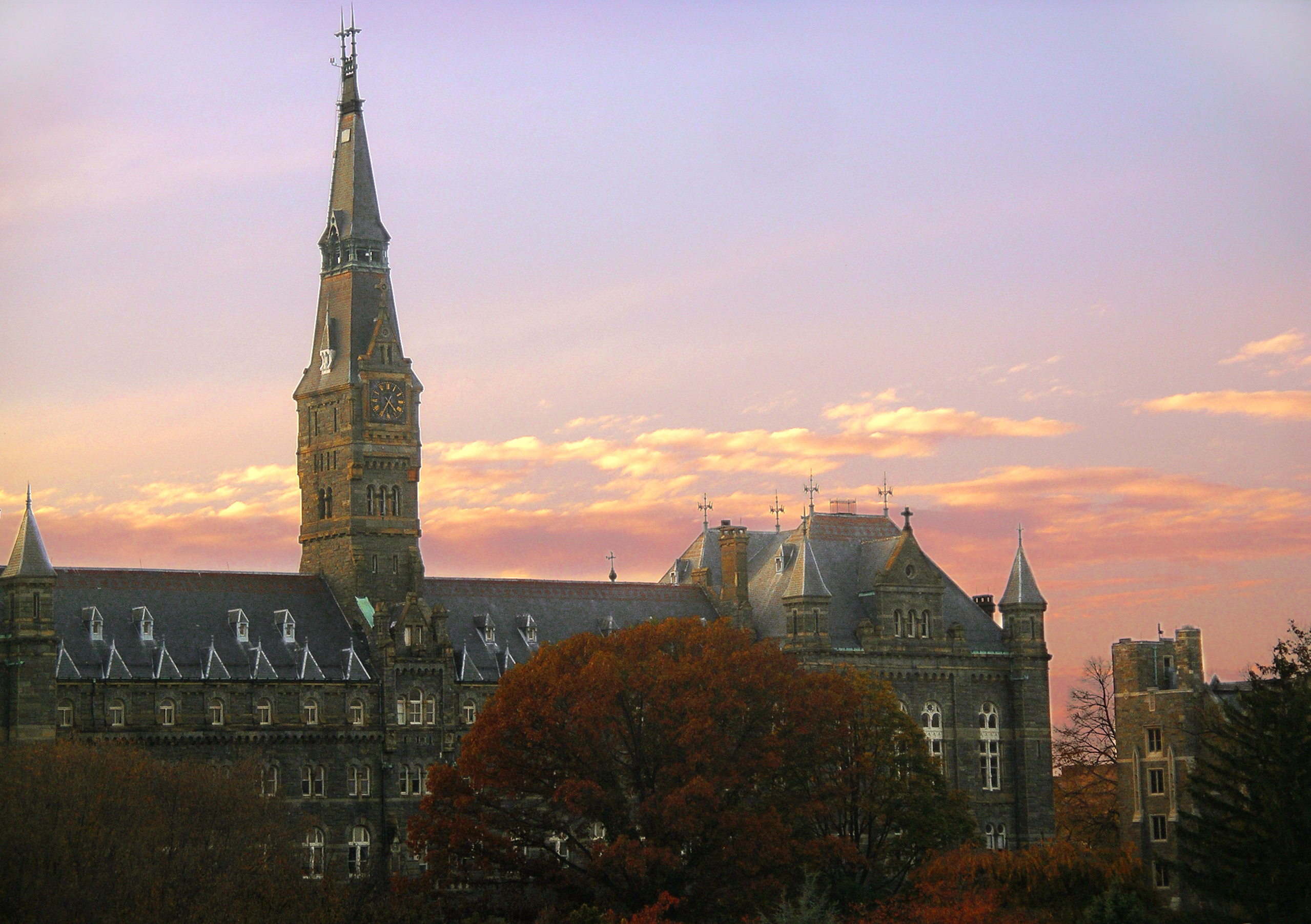 Georgetown University's Healy Hall from the east side taken at sunset from the Walsh Building.